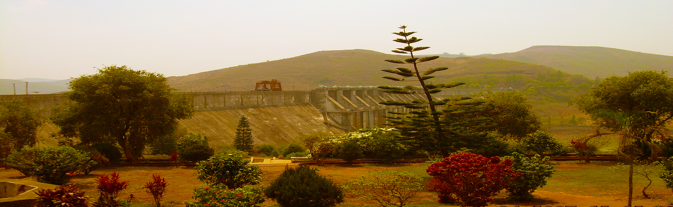 Panoramic view of Kolab dam located in Koraput, Odisha in April 2007